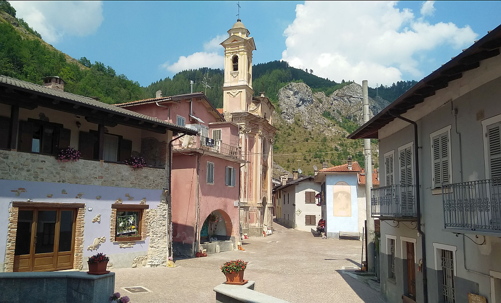 Andonno (Valdieri, CN, Italy): village centre